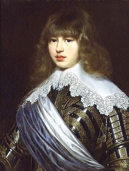 Portrait of Prince Waldemar Christian of Denmark (1622-1656), son of Christian IV of Denmark